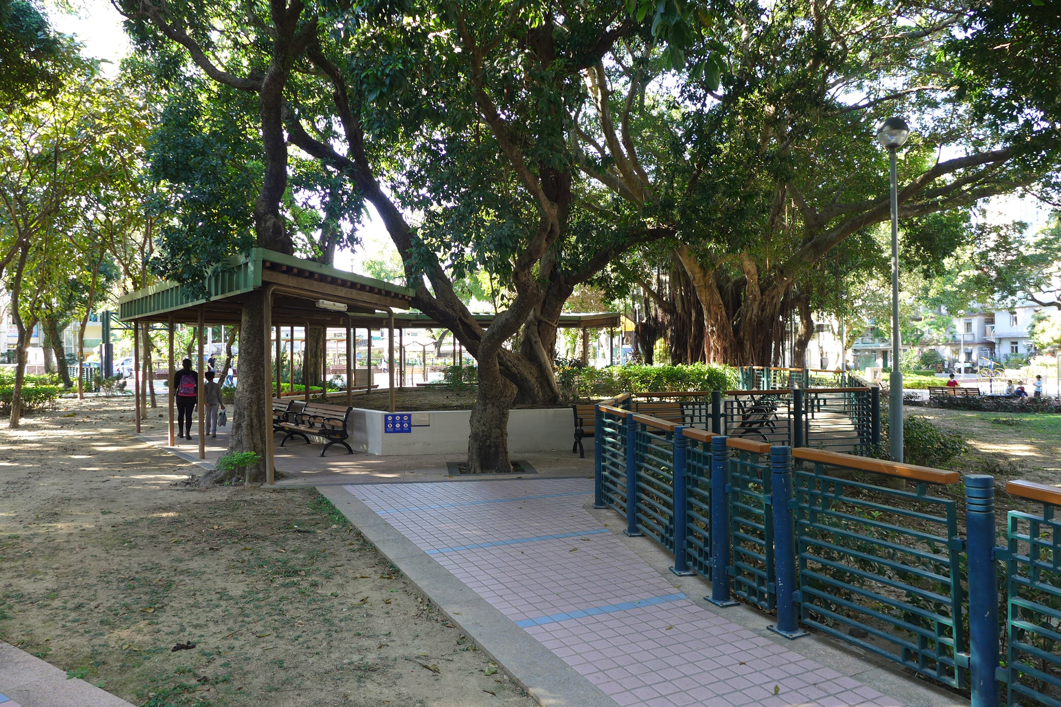 Fanling Wai Rest area